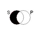 Interpretación gráfica del juicio aristotélico afirmativo universal